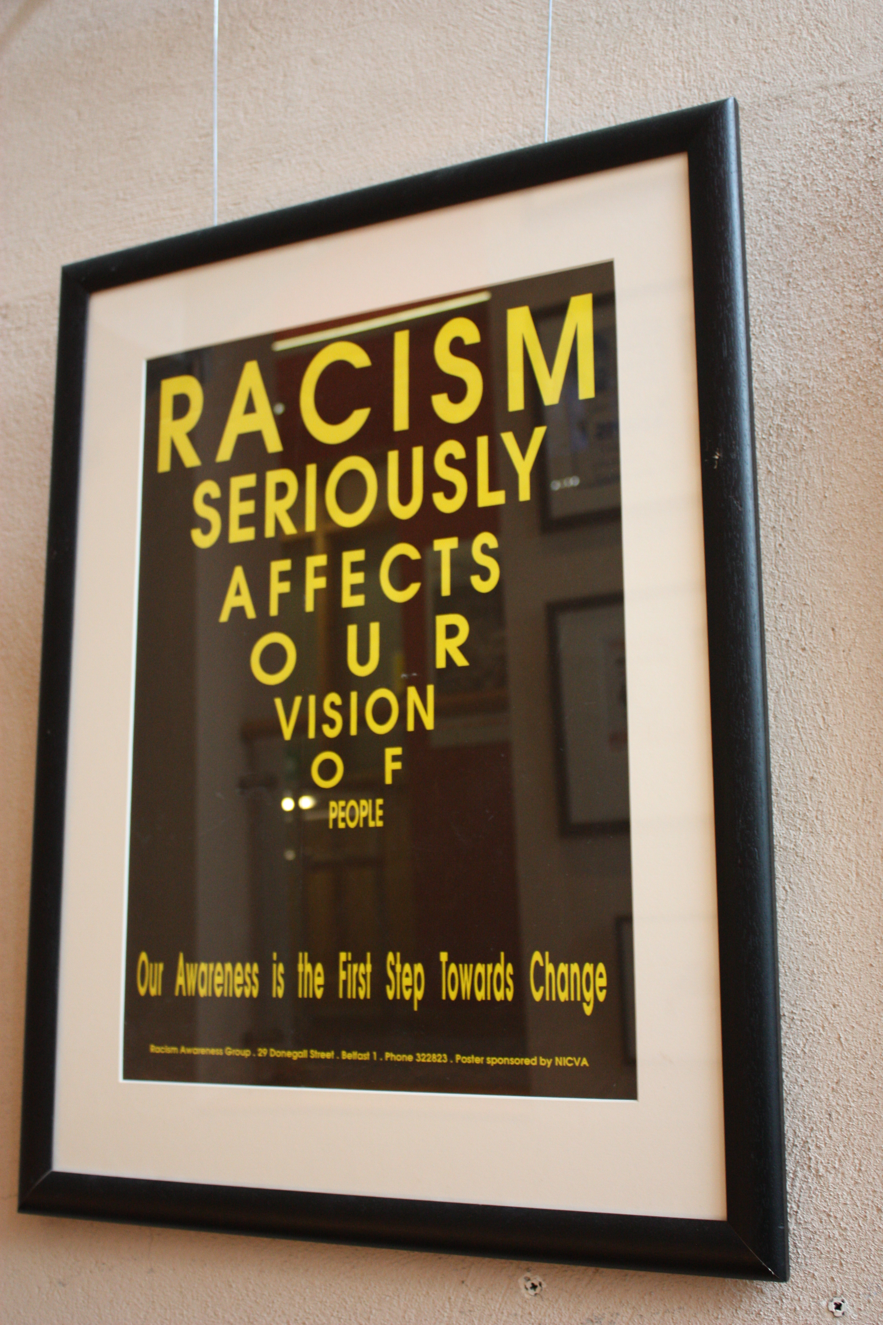 "Racism seriously affects our vision of people" (Racism Awareness Group, 1996), Troubled Images Exhibition, Linen Hall Library, Donegall Square North, Belfast, Northern Ireland, August 2010